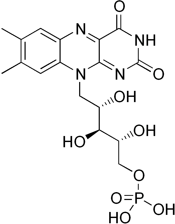 Chemical structure of flavin mononucleotide created with ChemDraw.